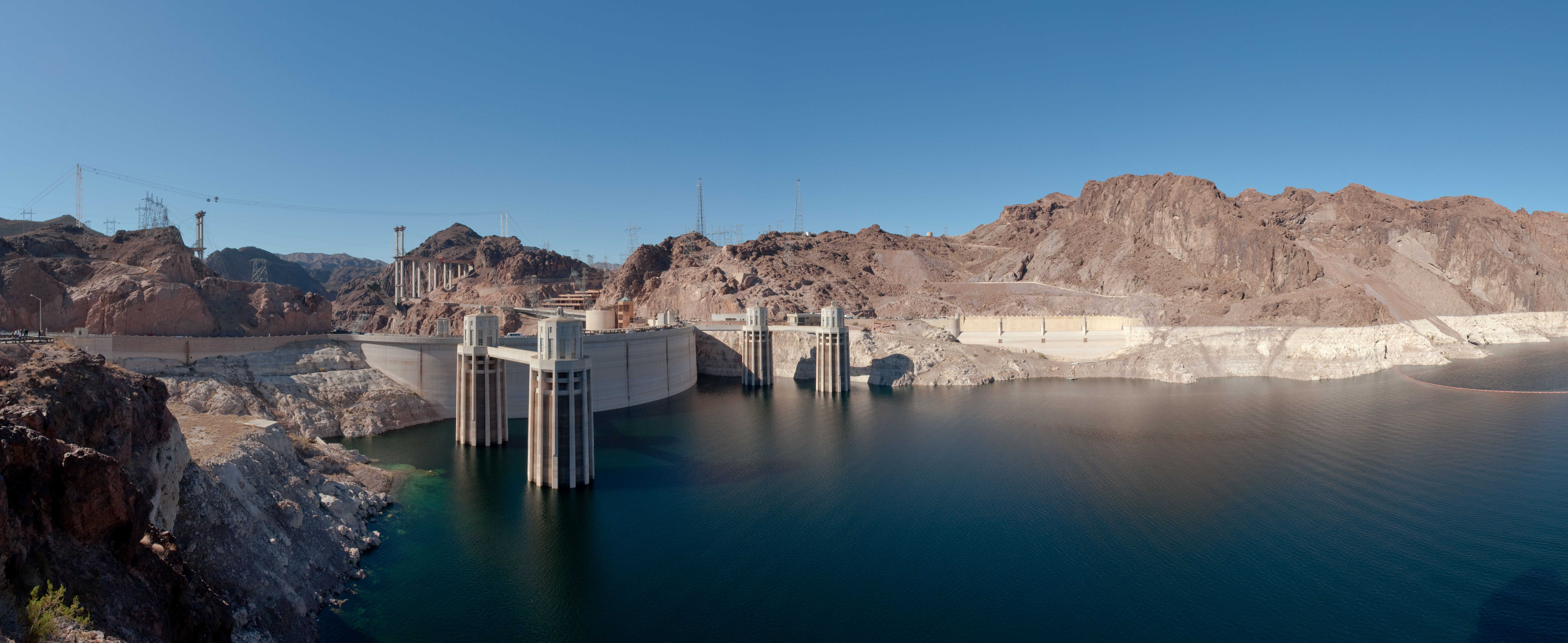 Ah yes, the ol' Hoover Dam. We passed it on the way from the Grand Canyon to Las Vegas on our round-trip through the southwestern USA last year. They made quite a tourist attraction out of it, with a huge parking garage (of course), a museum, and – for the European tourists – the chance to walk over it. Yes, walk! I know it sounds crazy, but it is possible. And we did it, too! Even though it was in Mid-November, the sun was beating down quite intensely, and we were very relieved once we got into the air-conditioned gift shop on the way out. This panorama is taken from one of the parking platforms on the approach from the Arizona / Mountain Time side. On the very left you can see some of the structures for the new bypass – large trucks are already banned from crossing the dam, with future plans to route all traffic over the new bridge. You already have to pass through all kinds of security checkpoints before you can go near the dam – I guess that's for homeland security purposes. Anyway, the water level in Lake Mead seems to have dropped quite considerably, judging from the white residue on the rocks on the right. I don't know over what time period that happened, but the Dam isn't that old. Looks like they'll run out of water (and electricity) in Vegas sometime in the future... Stupid future.